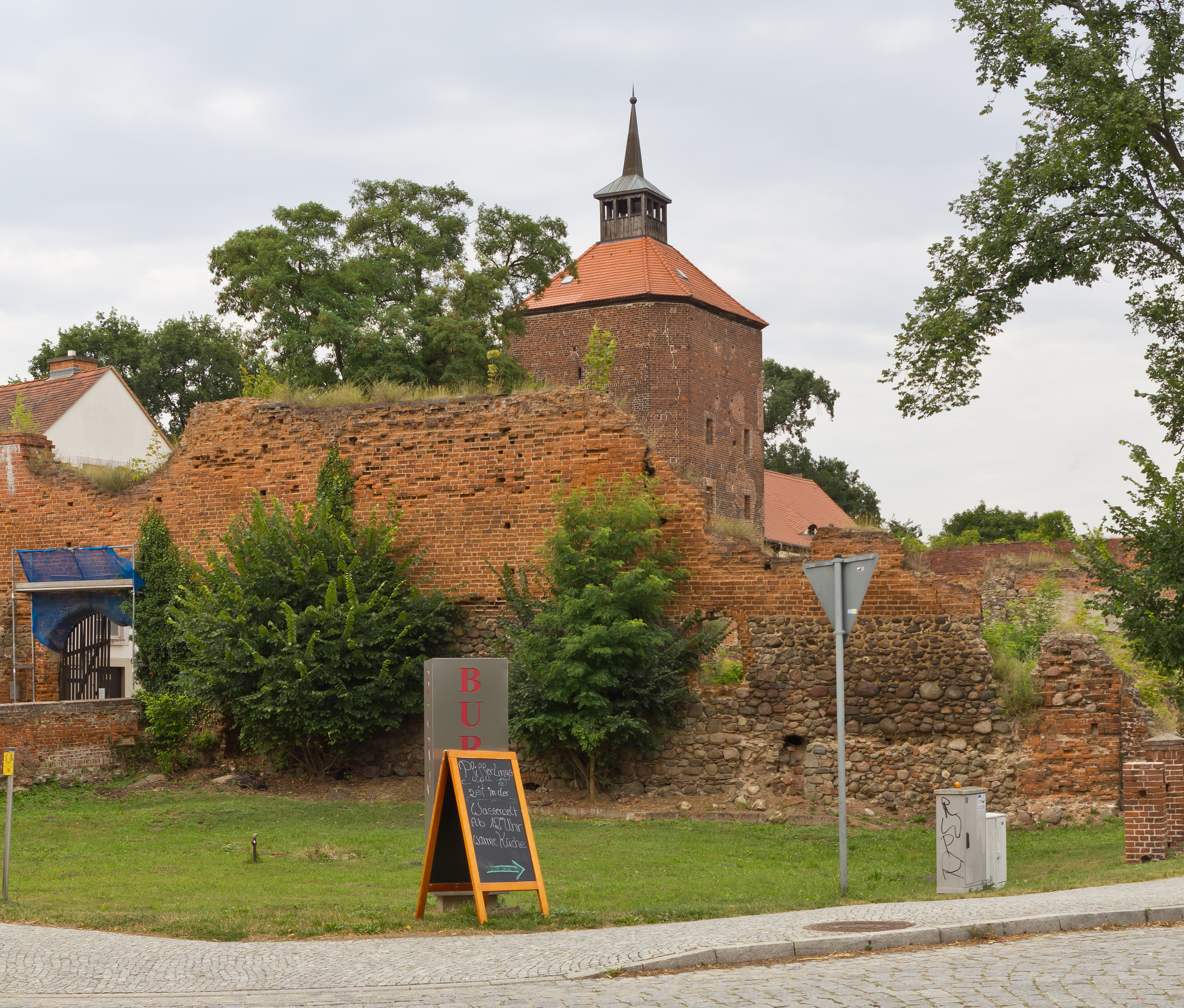 Castle in Beeskow, Brandenburg, Germany